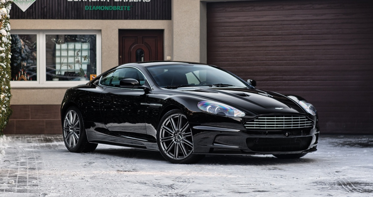 Aston Martin car, DBS series